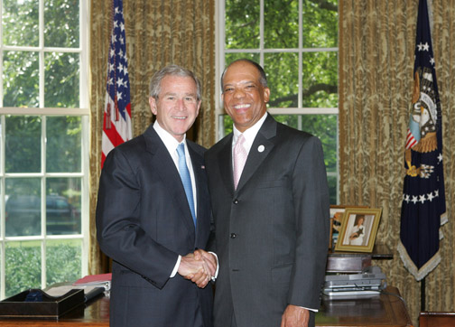 United States President George W. Bush meets Bermuda Premier Ewart Brown at the White House Oval Office.